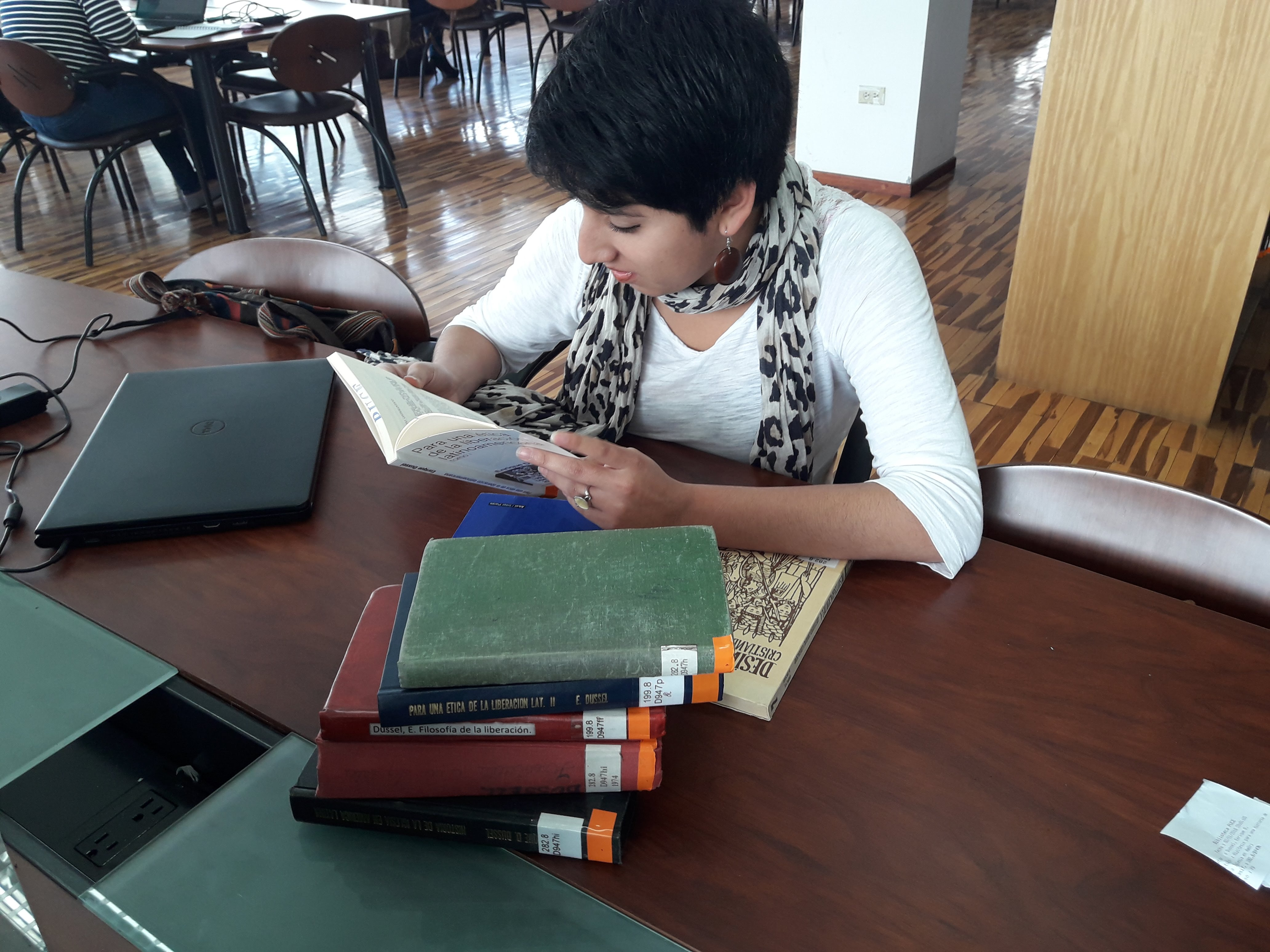 A student working alone at a library